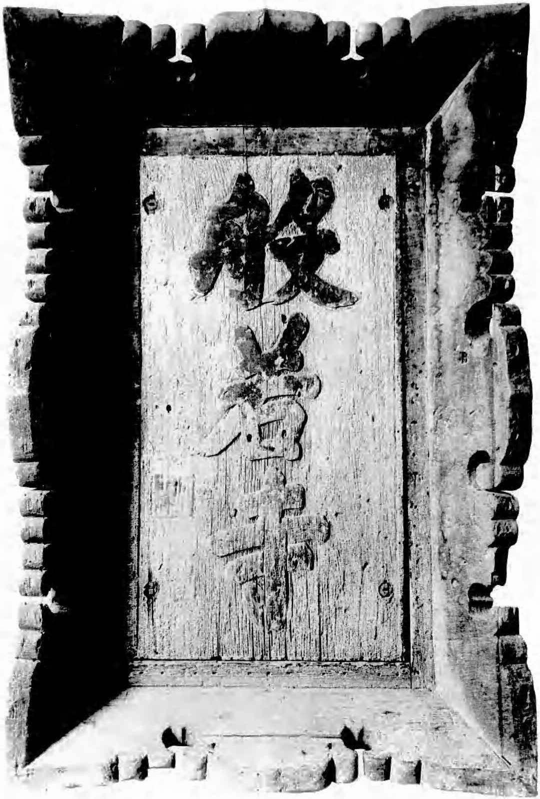 Tablet from a gate at Hannyaji, with calligraphy said to be by Emperor Saga, Hannyaji, Nara, Nara, Japan 木造寺門扁額 伝嵯峨天皇宸翰